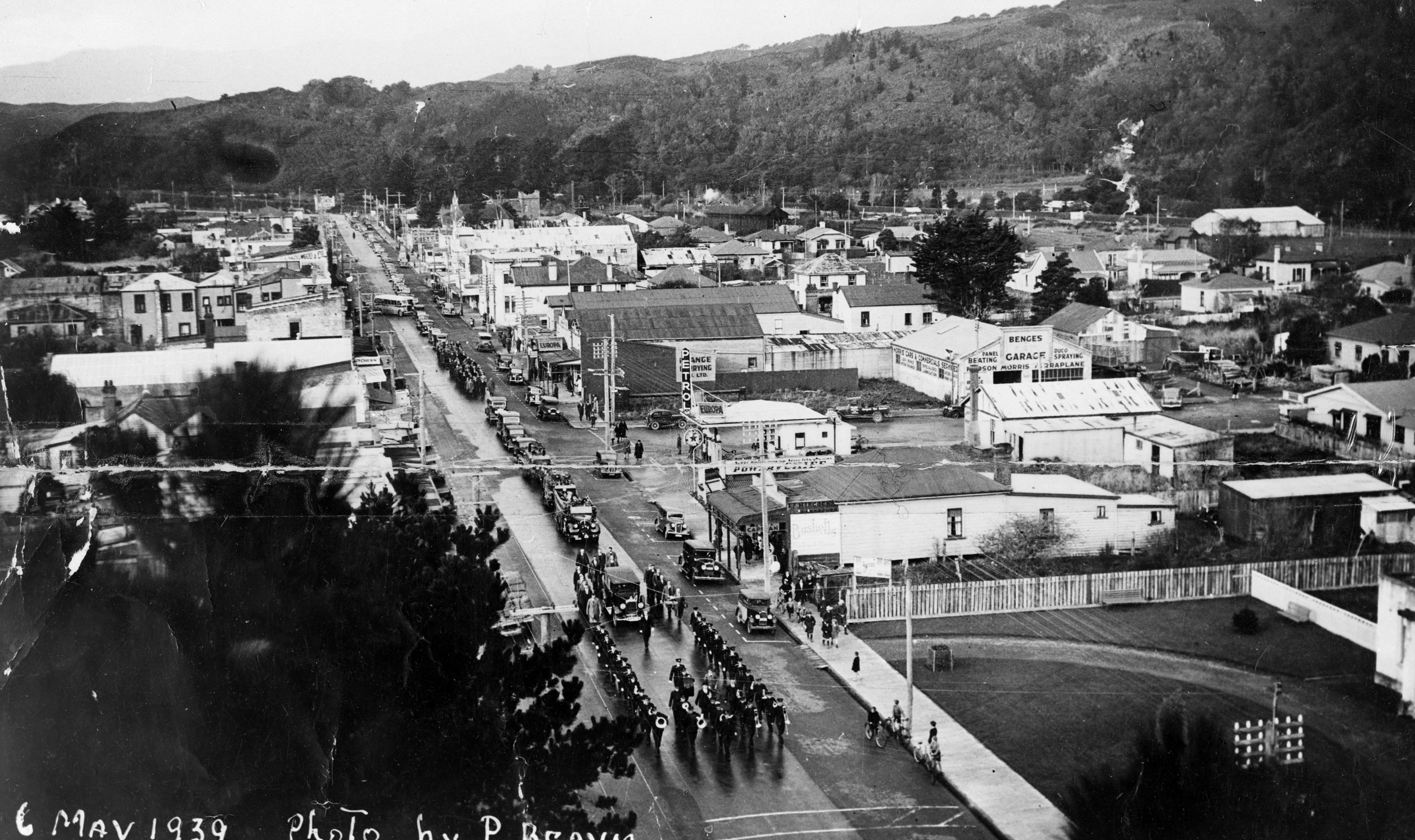 Looking down over Main Street, Upper Hutt, showing the funeral procession of Mayor Peter Robertson lead by a brass band. Houses and commercial buildings can also be seen.